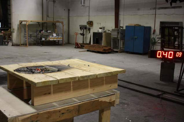 Photo is from fire test commissioned by TimberSIL Products to pass California State Fire Code 12-7A part B Test is post on our site